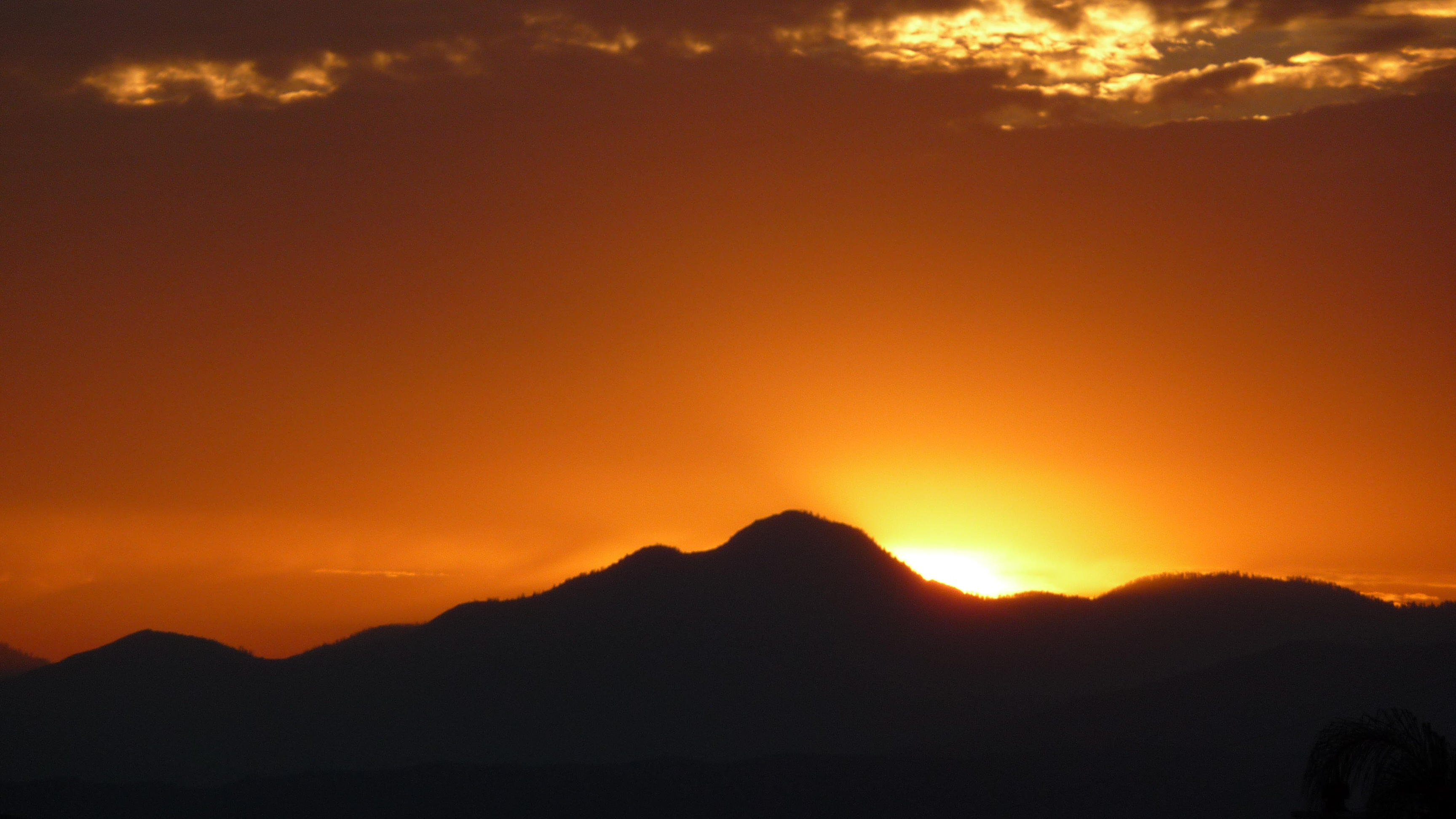 Sunset over the Topatopa Mountains - From Santa Clarita. I'll never get tired of this view.